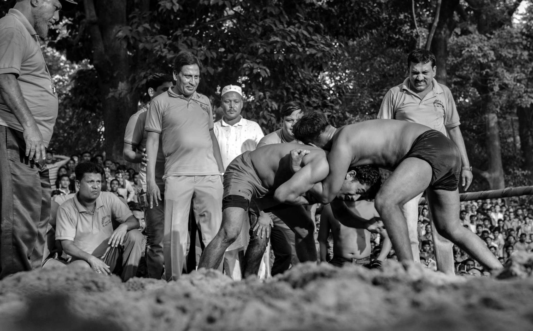 Two "Boli (Wrestler)" fighting in a wrestling match. "Boli Khela" is a local traditional wrestling game played between two "Boli" (wrestler). This event is hold on the first day of the Bengali new year in 14 April at Chittagong city of Bangladesh.